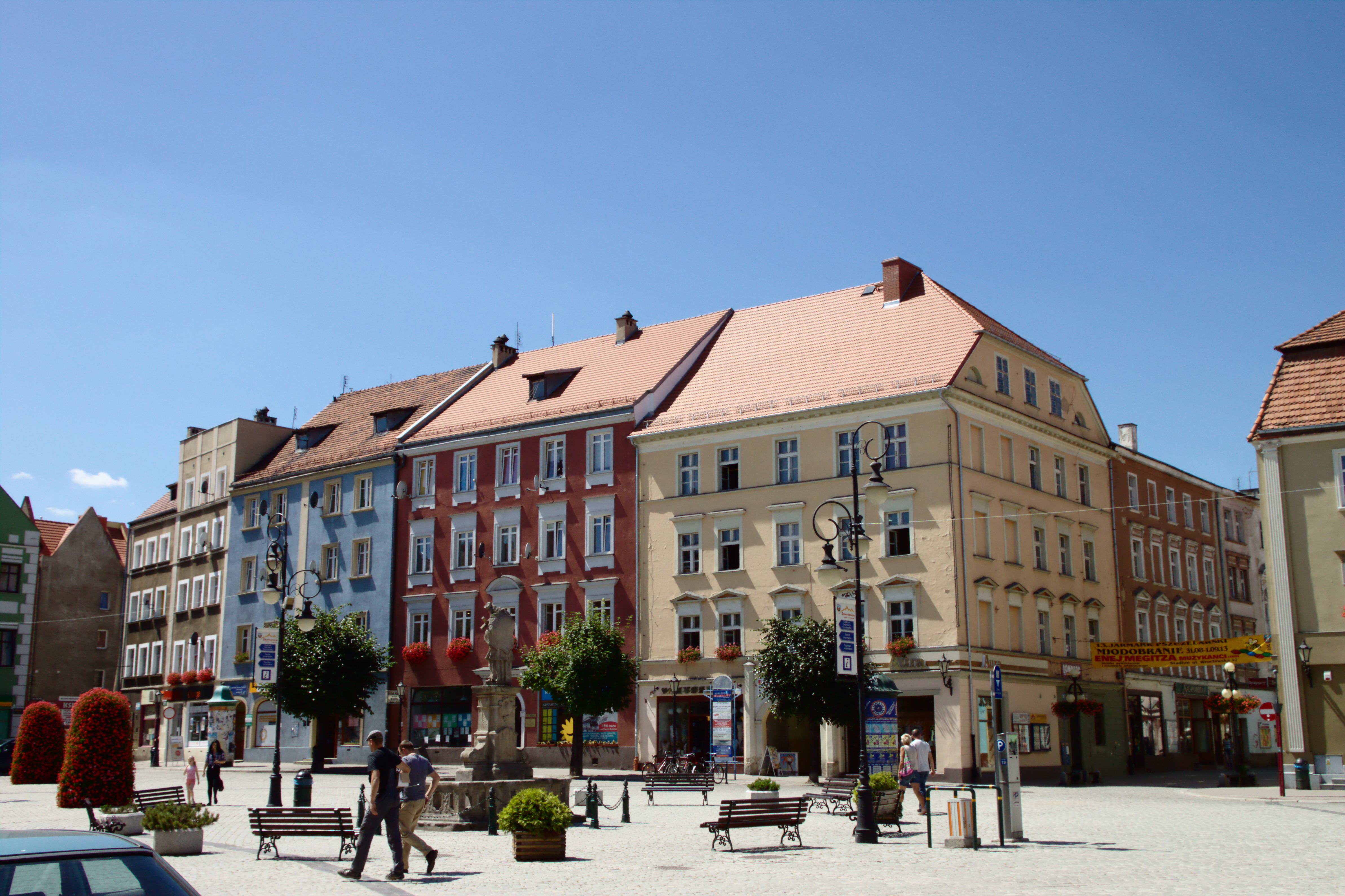 Northern part of the main square in Dzierżoniów, Poland